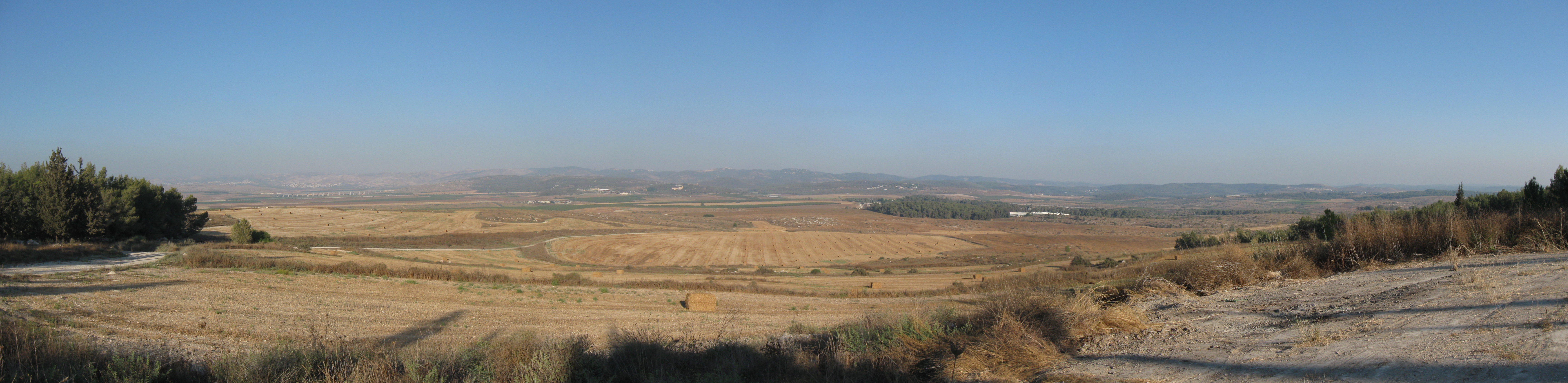 Ayalon valley from HaMeginim wood